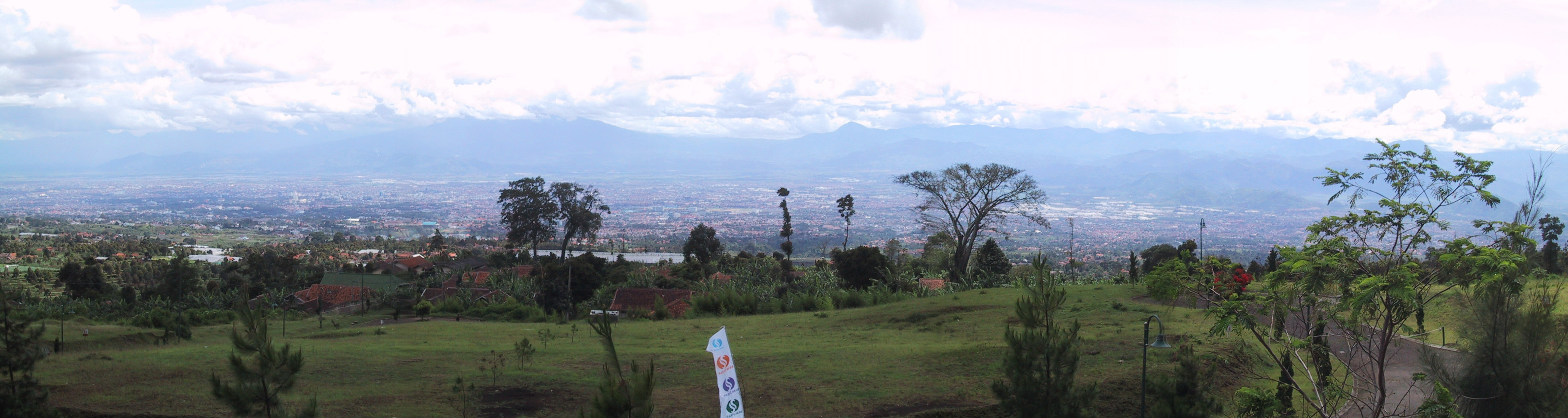 Panoramic view over Bandung from the northern hills.